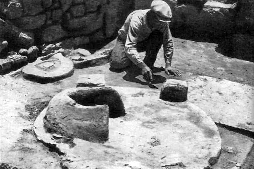 Troyan Fireplace (Troy IV)